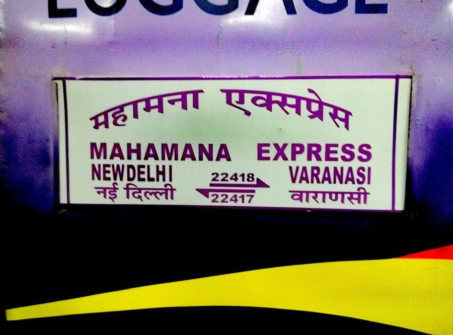 Name Board Of Indian Railways Train Service, Mahamana Express Which Runs Between Indian Cities Of Varanasi & New Delhi.